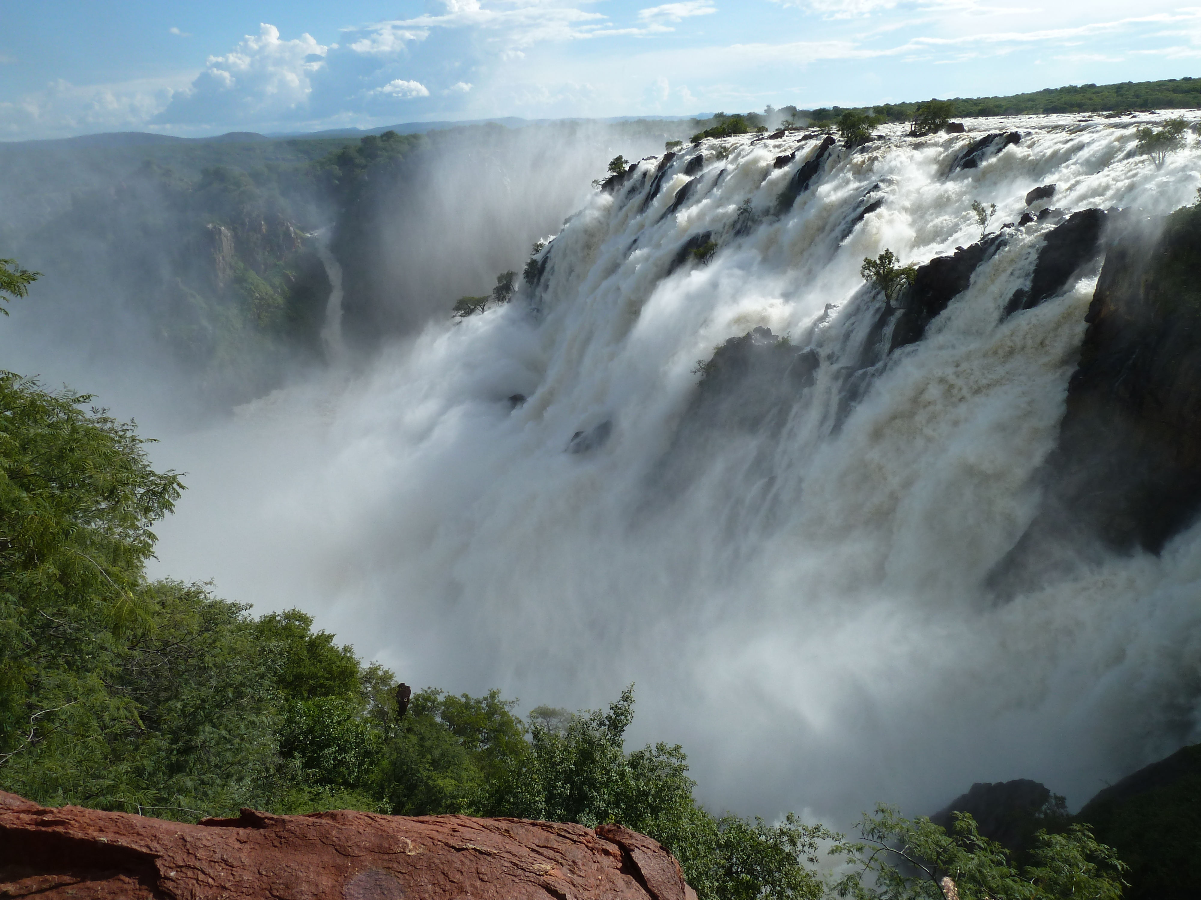 closer you can only get with an underwater camera